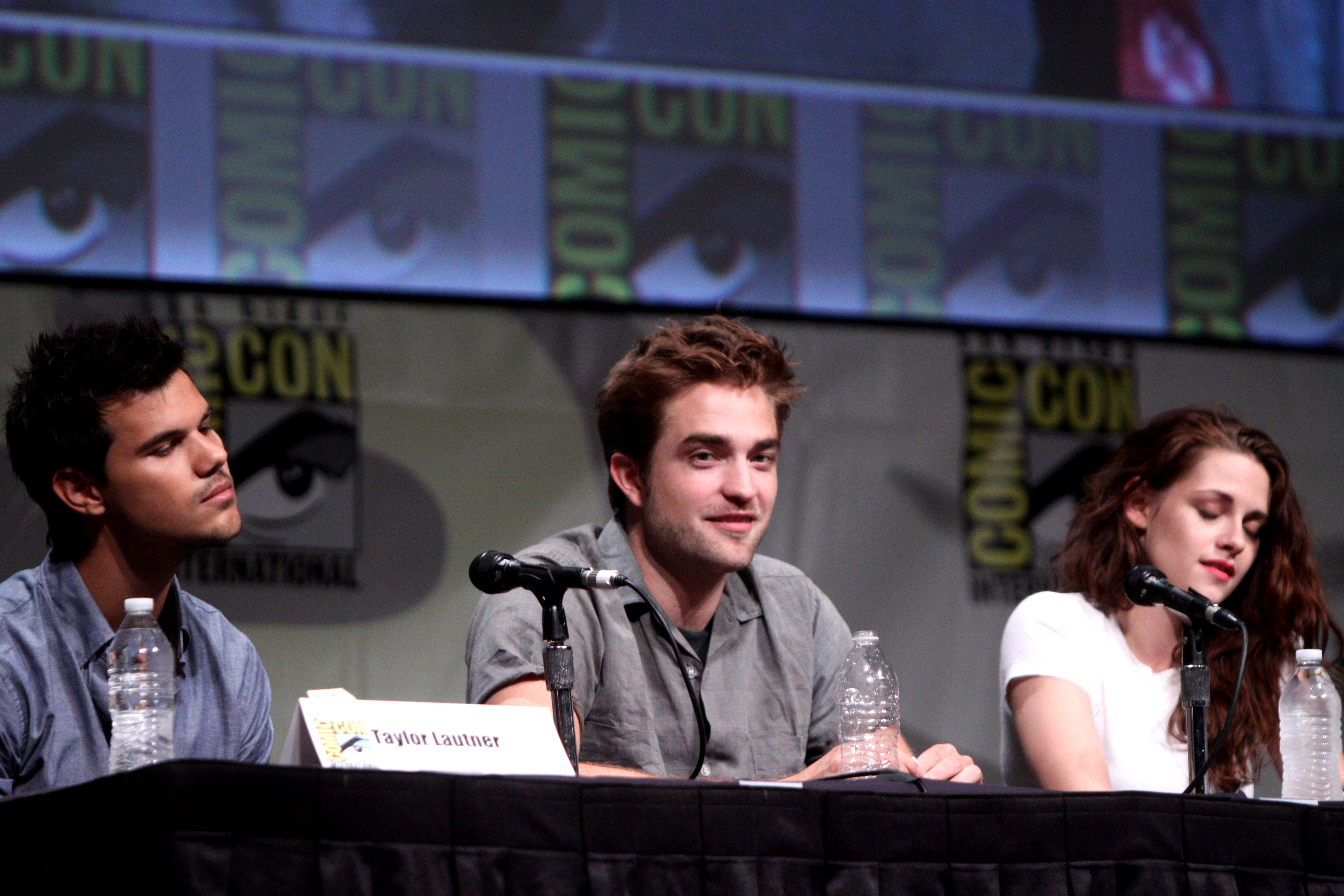 Taylor Lautner, Robert Pattinson & Kristen Stewart speaking at the 2012 San Diego Comic-Con International in San Diego, California.